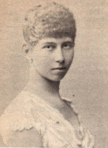 Princess Viktoria of Prussia